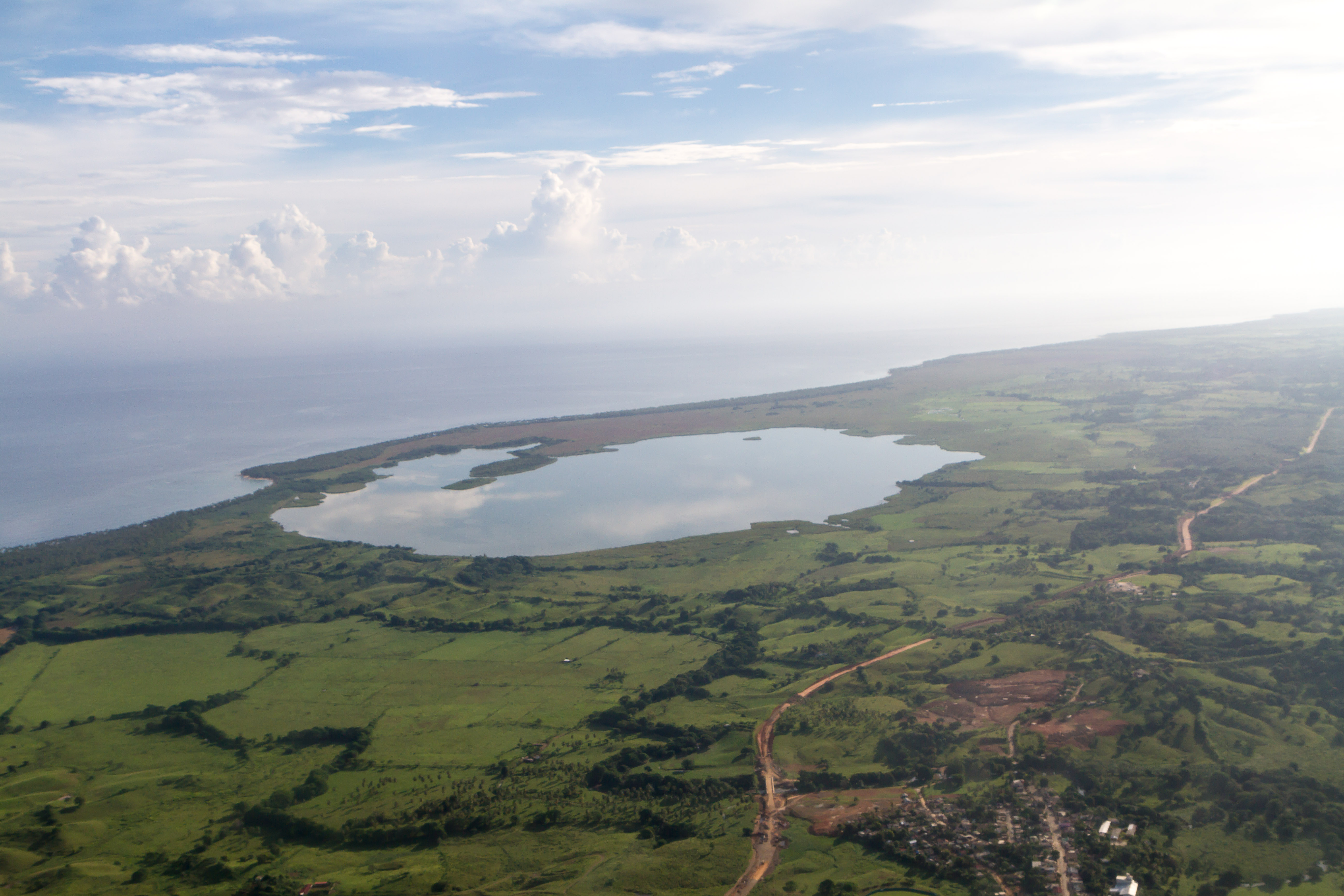 Laguna Limón, Dominican Republic.